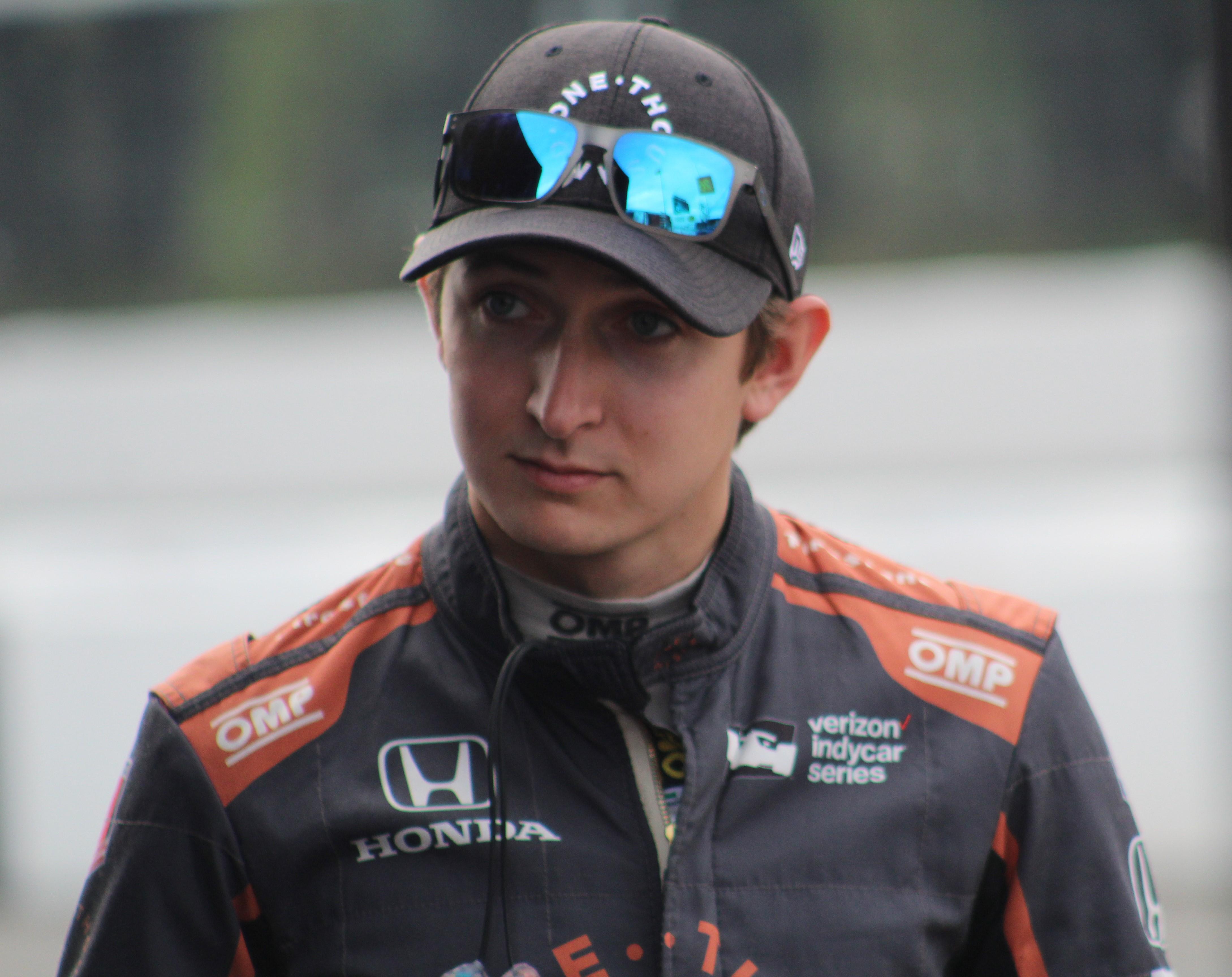 2018 ABC Supply 500 IndyCar race at Pocono Raceway